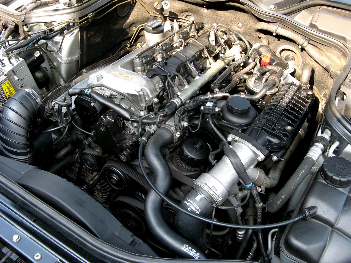 OM646DE22LA Engine without Intake silencer and acoustic Cover